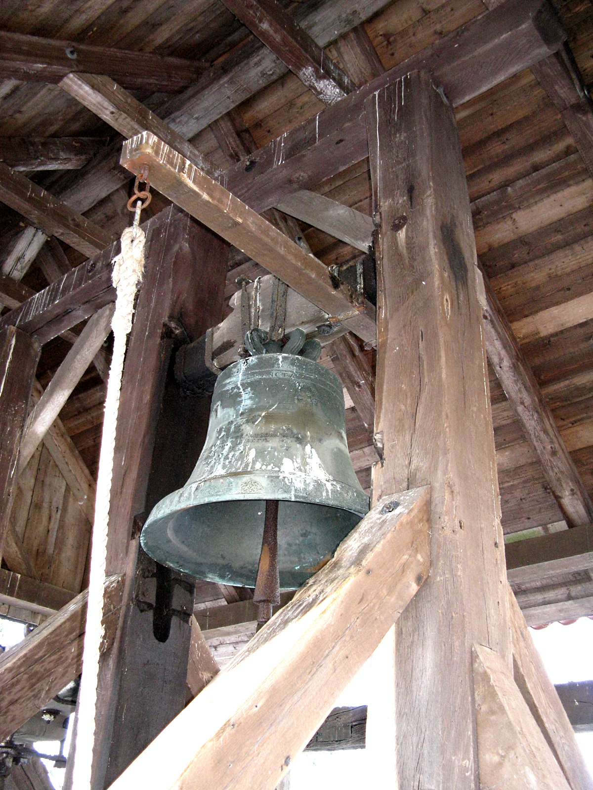 Church in Perlin, Mecklenburg-Vorpommern, Germany - Church bell